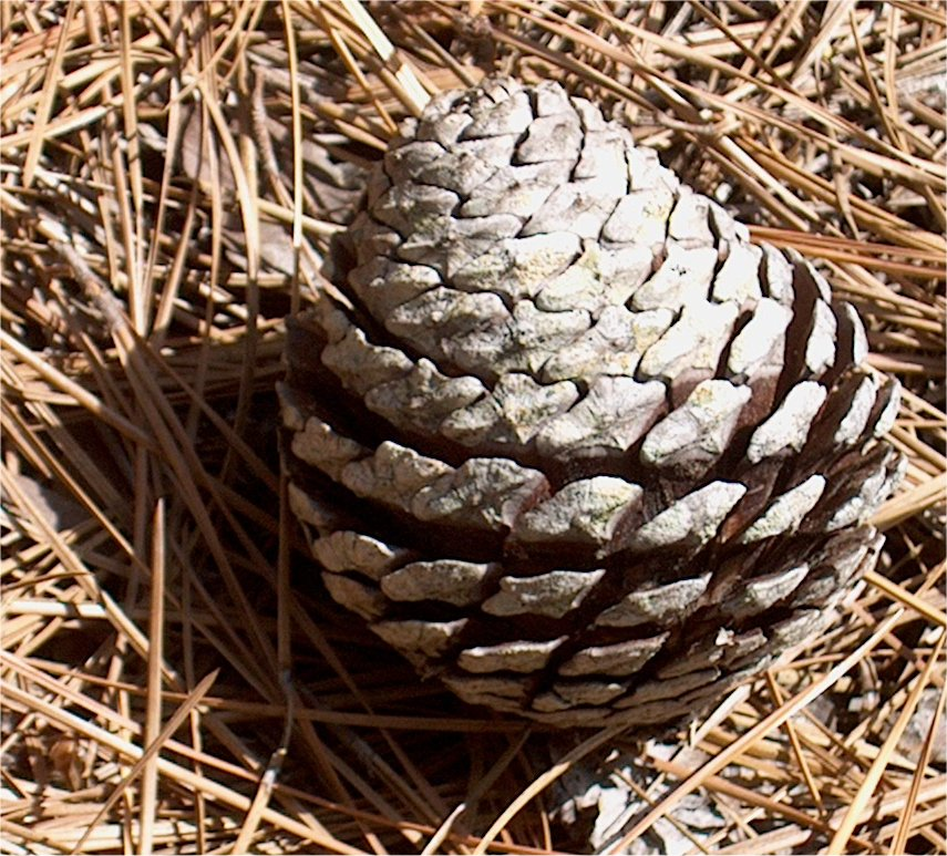 A Pond Pine cone in False Cape State Park, Virginia Beach, Virginia.